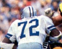 Dallas Cowboys' defensive end Ed "Too Tall" Jones pictured in a defensive play against the Los Angeles Rams during the 1985 NFC Divisional Playoffs game on January 4, 1986.